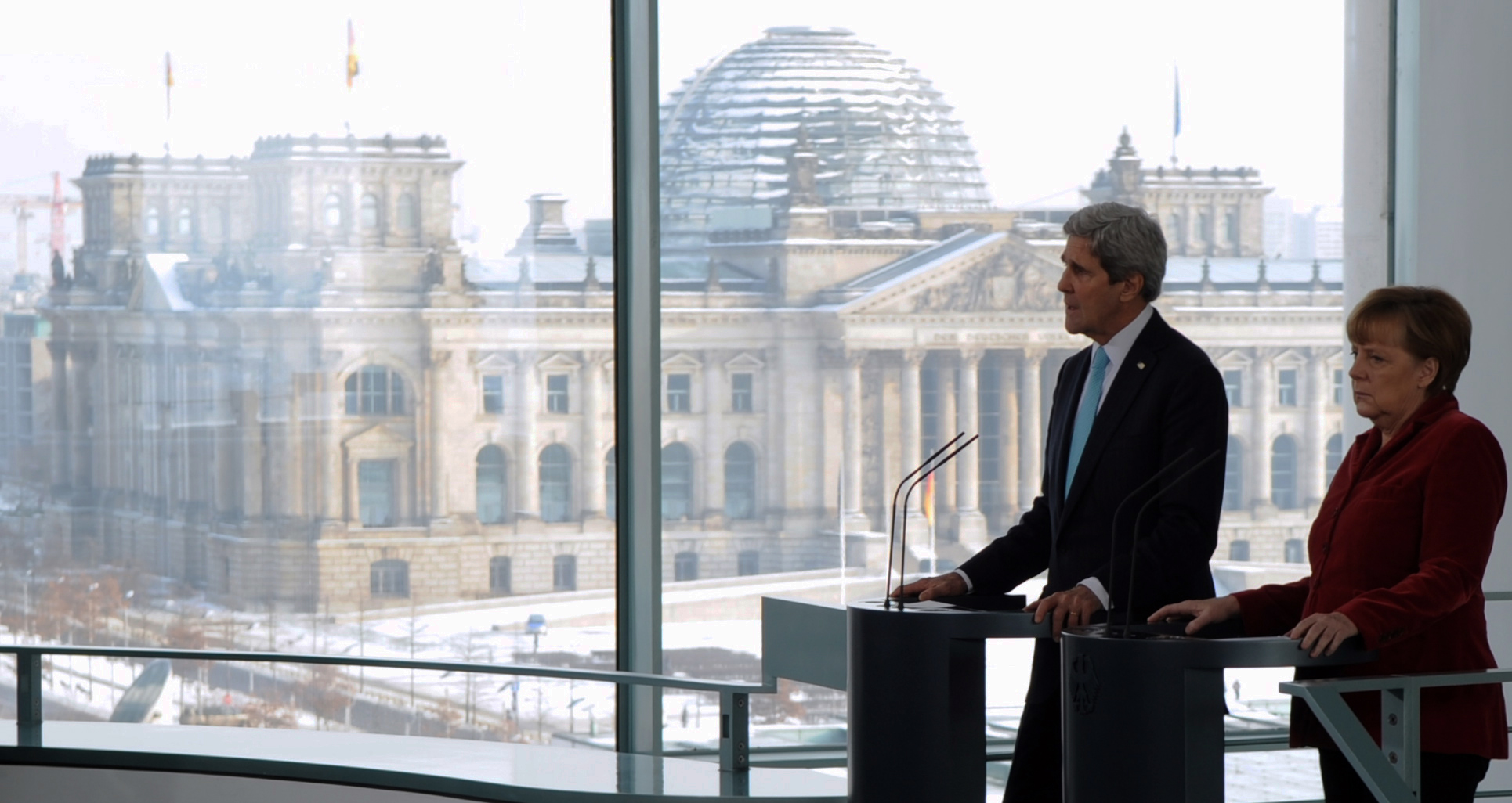 U.S. Secretary of State John Kerry and German Chancellor Angela Merkel deliver statements to reporters against a backdrop of the Reichstag Building in Berlin, Germany, on January 31, 2014. [State Department photo/ Public Domain]